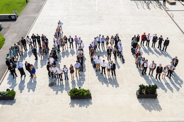 ebec group